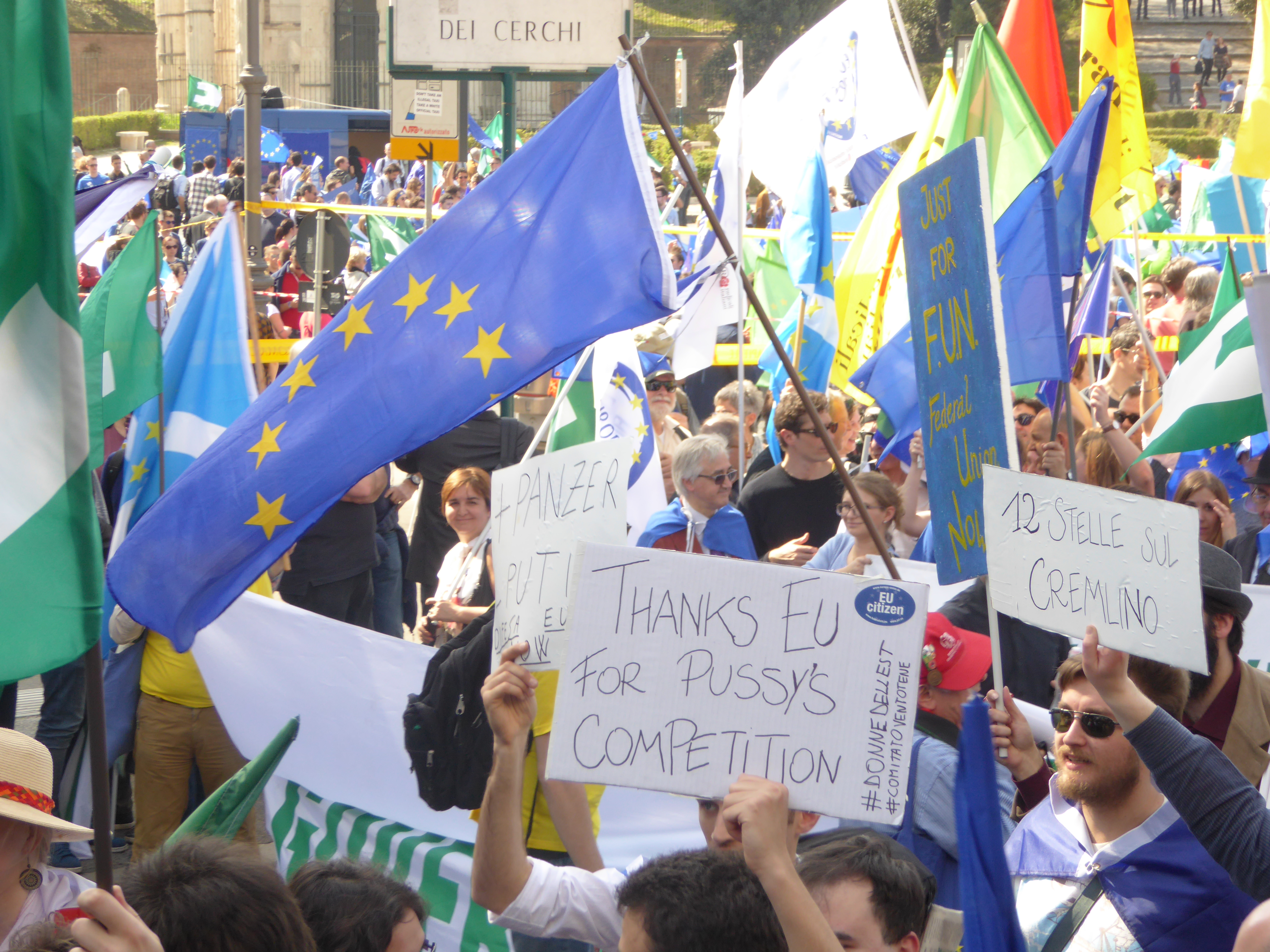 Rome, Bocca della verità, march.